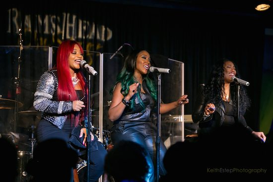 Done by Keith